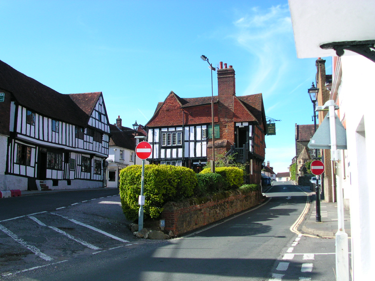 My own workMidhurst, West Sussex, England.